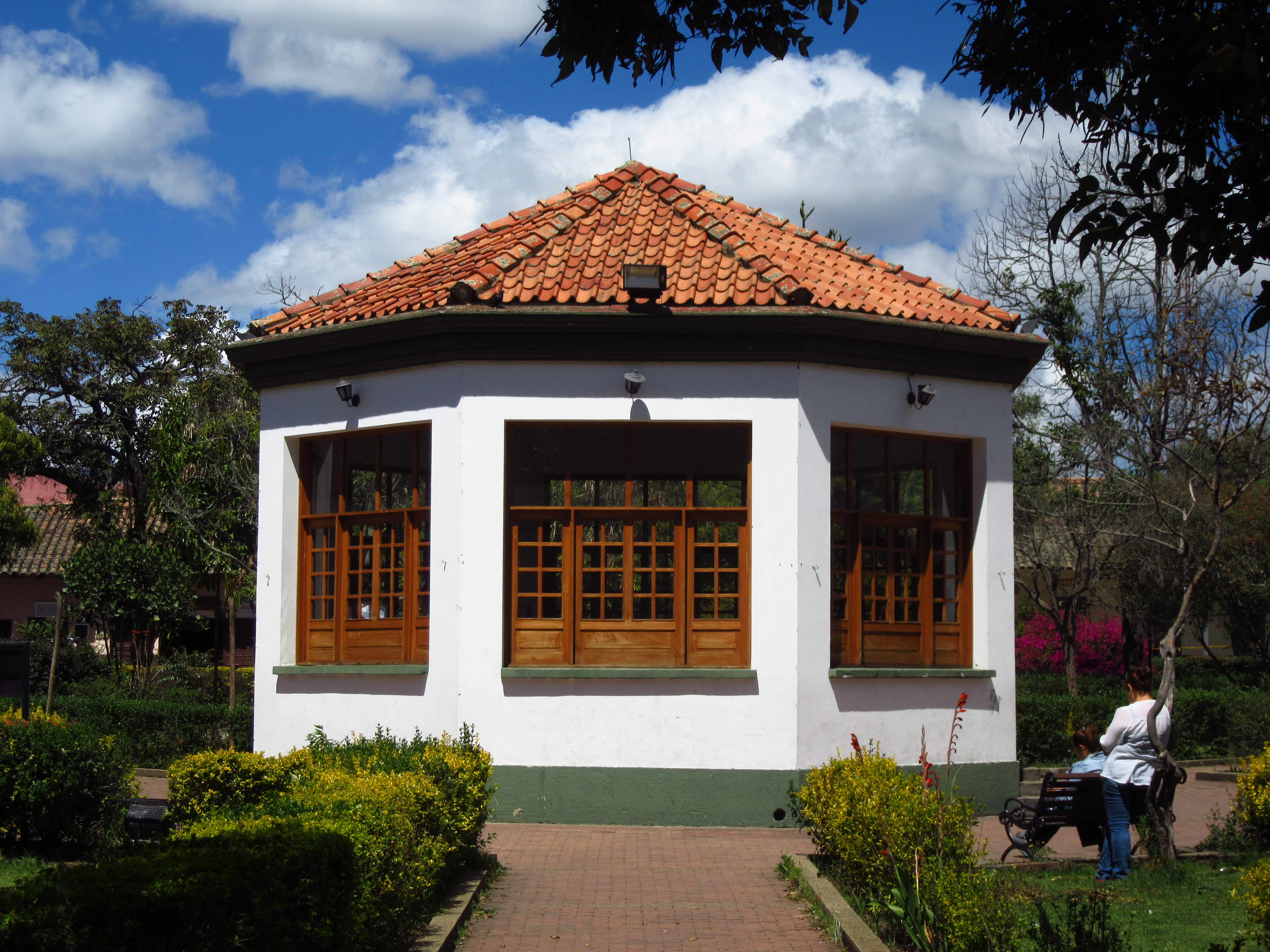 Subachoque